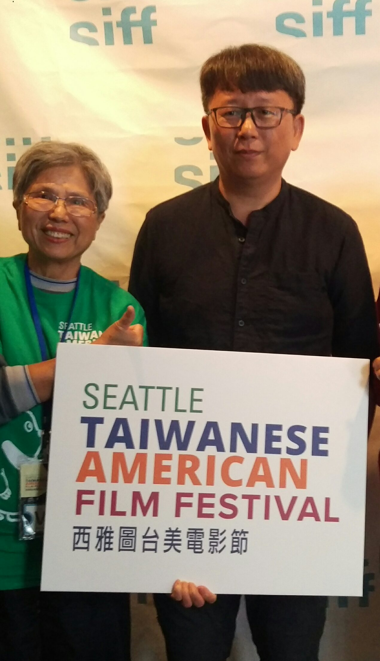 Director Yang attended the 2018 Seattle Taiwanese American Film Festival for his puppet master documentary Father.